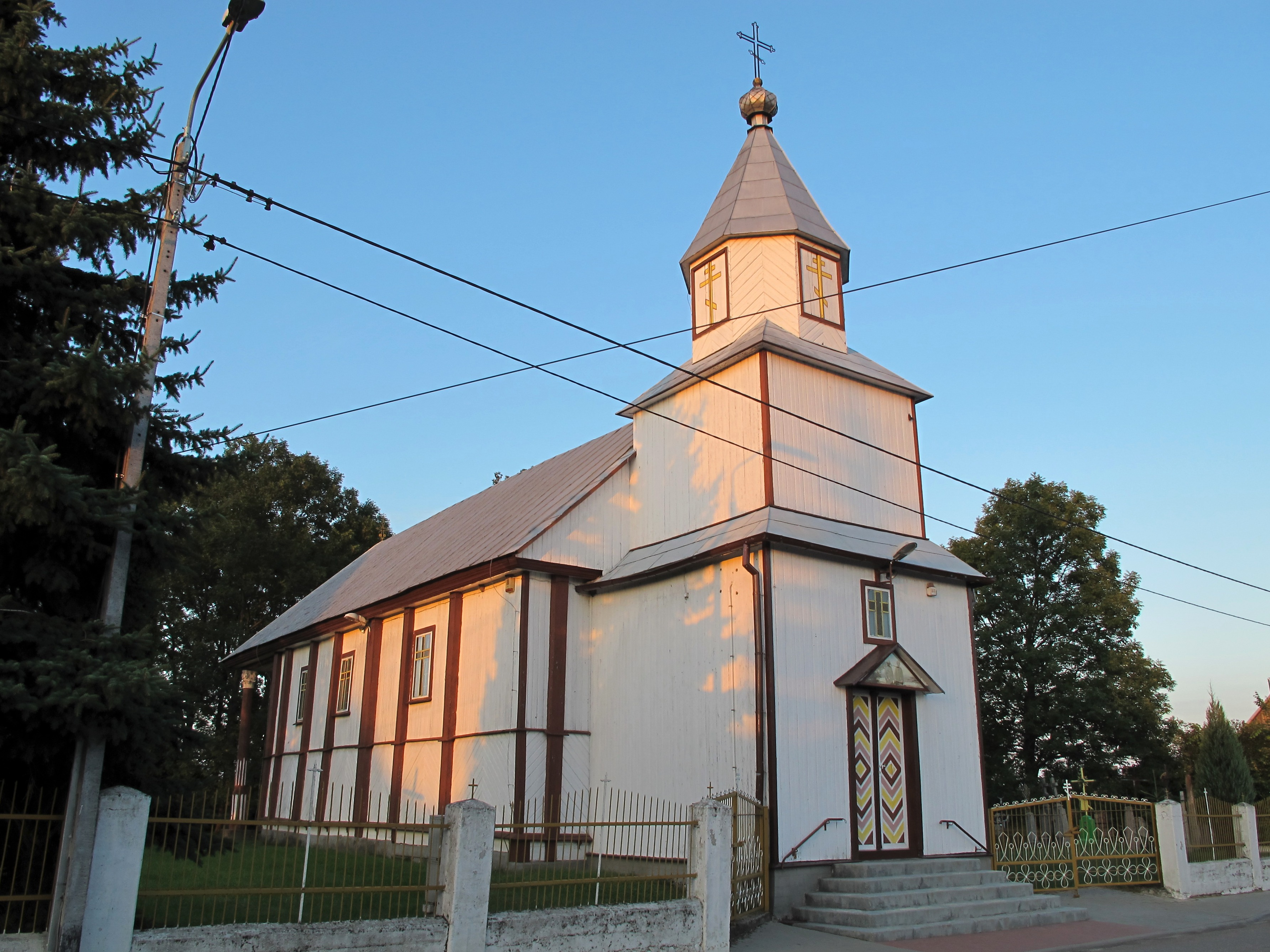 Saints Peter and Paul orthodox church in Stare Lewkowo, gmina Narewka, podlaskie, Poland